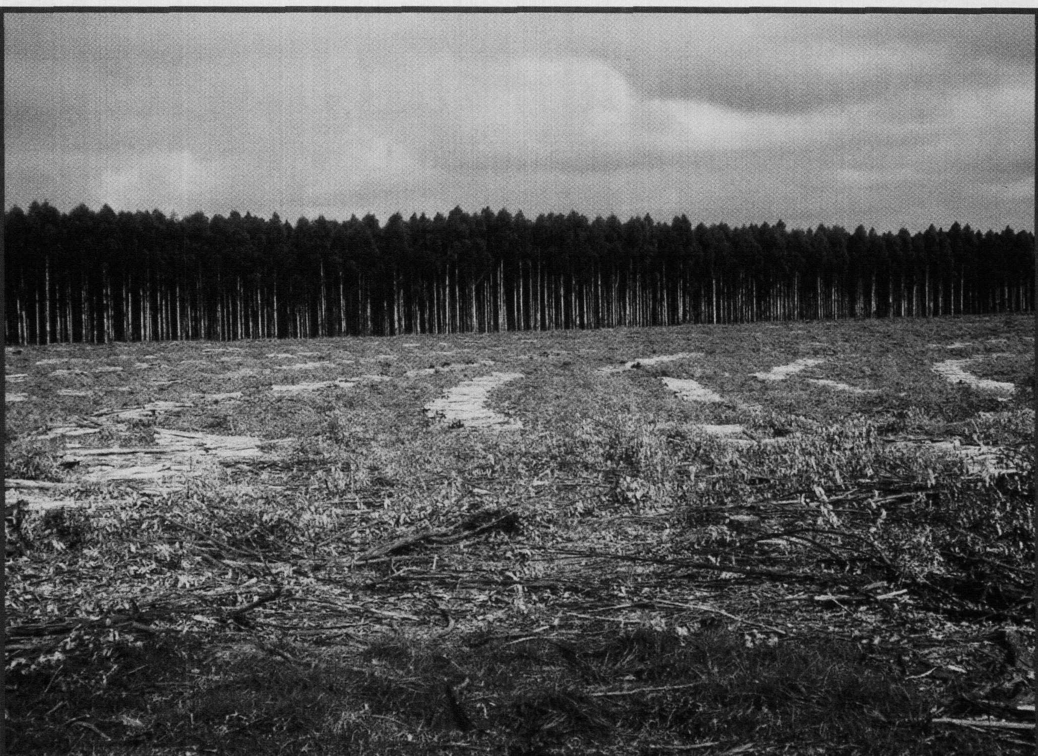 Trees